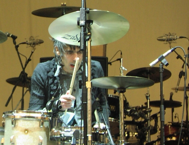 Shellac playing Pavilion Stage ATP vs The Fans